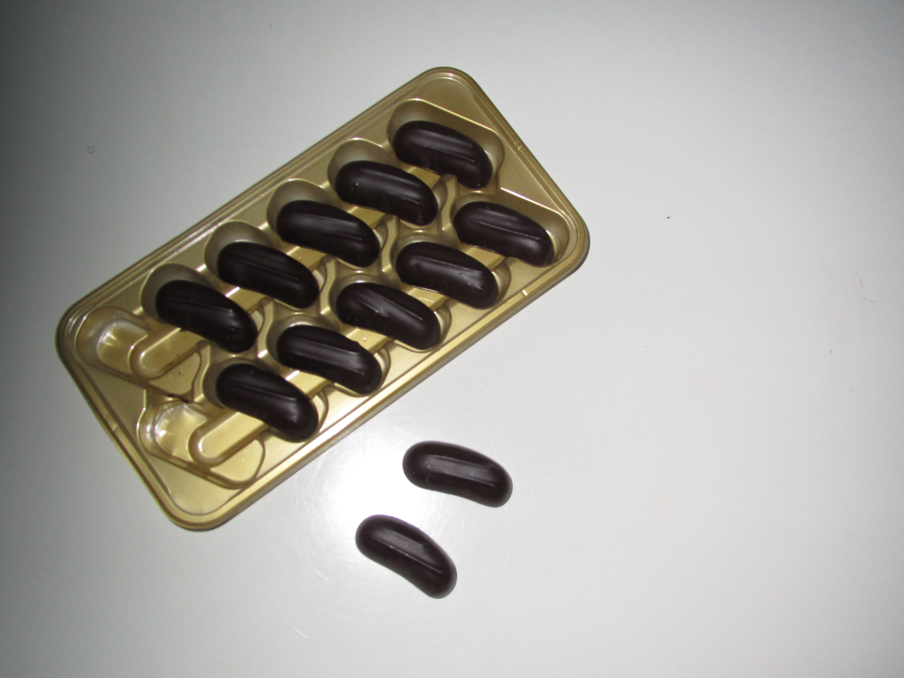 Dutch alcoholic chocolate candies, known as "rumbonen"